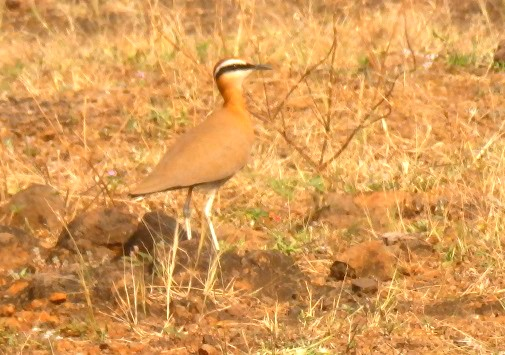 Grassland Bird spotted in South Asia